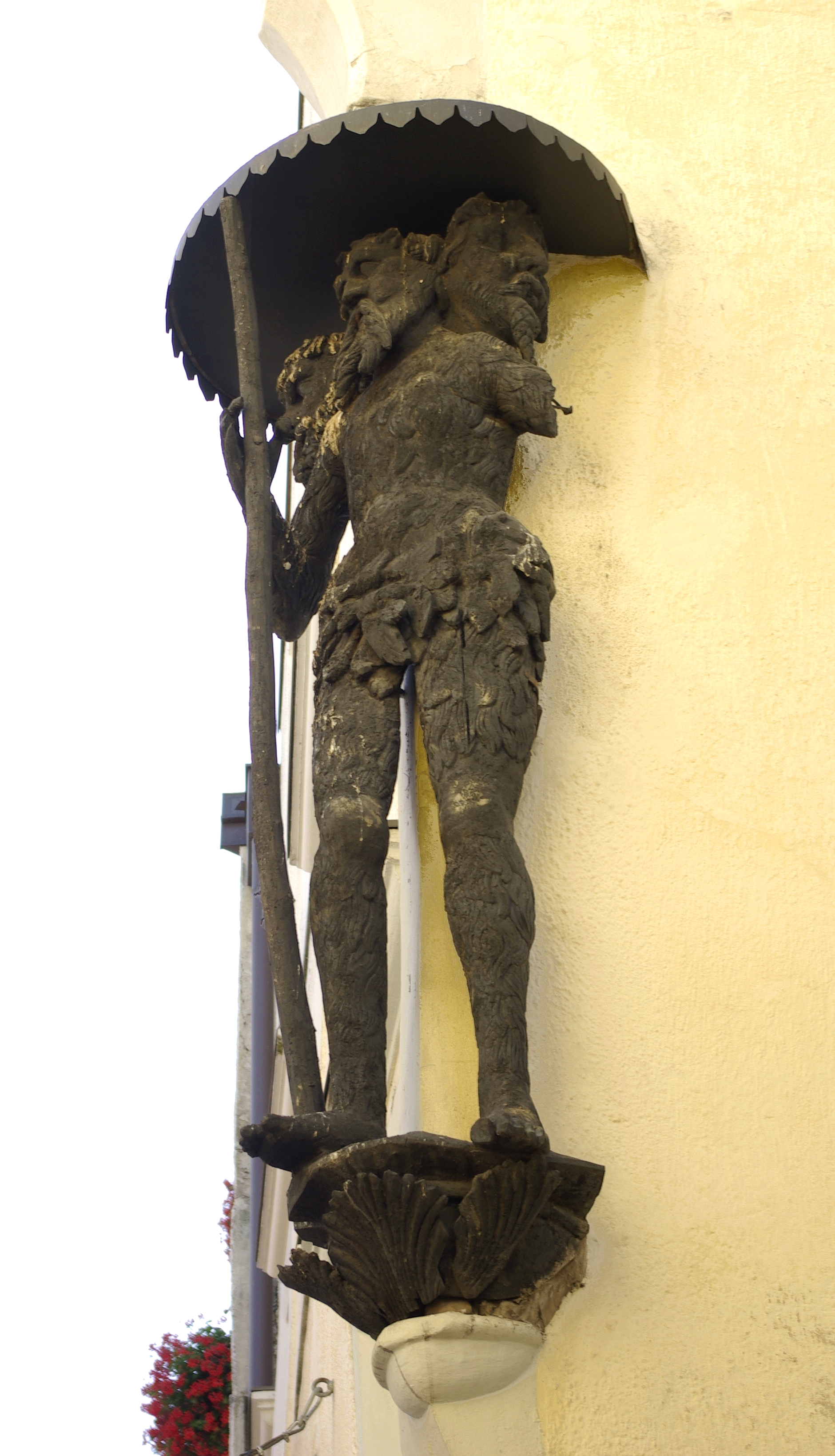 The three-headed "wild man", an old wood sculpture on the façade of the Gasthaus Schwarzer Adler in Brixen (South Tyrol, Italy), probably carved in the late 16th century